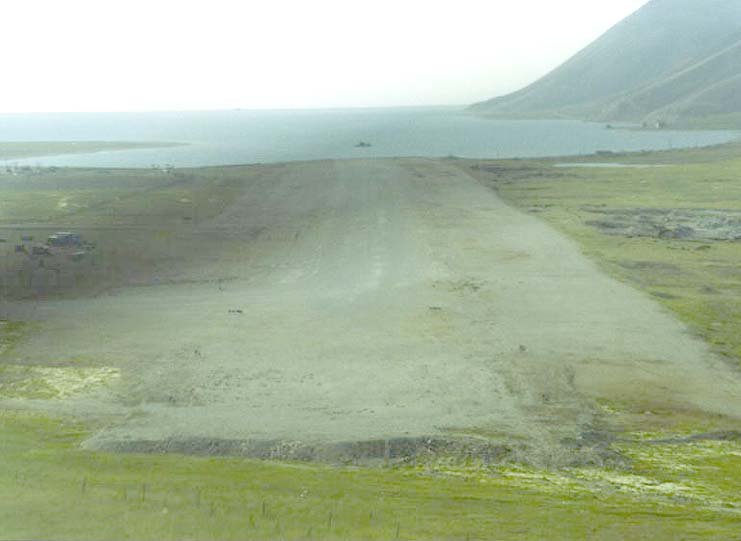 Approach to Rwy 19 of Provideniya Bay Airport, Russia.